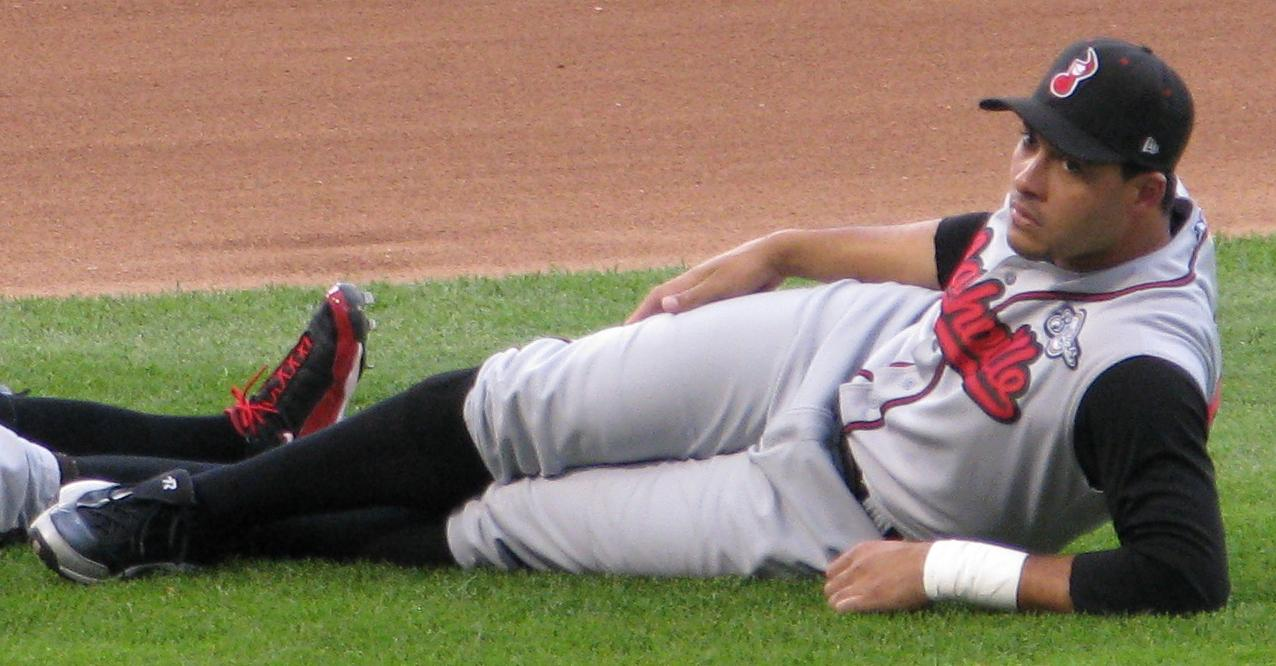 Erick Almonte, a baseball player for the minor league Nashville Sounds, before a game at Isotopes Park on June 24, 2009